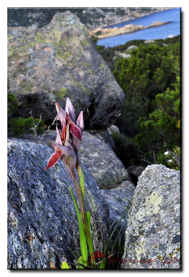 Serapias nurrica Corrias 1982